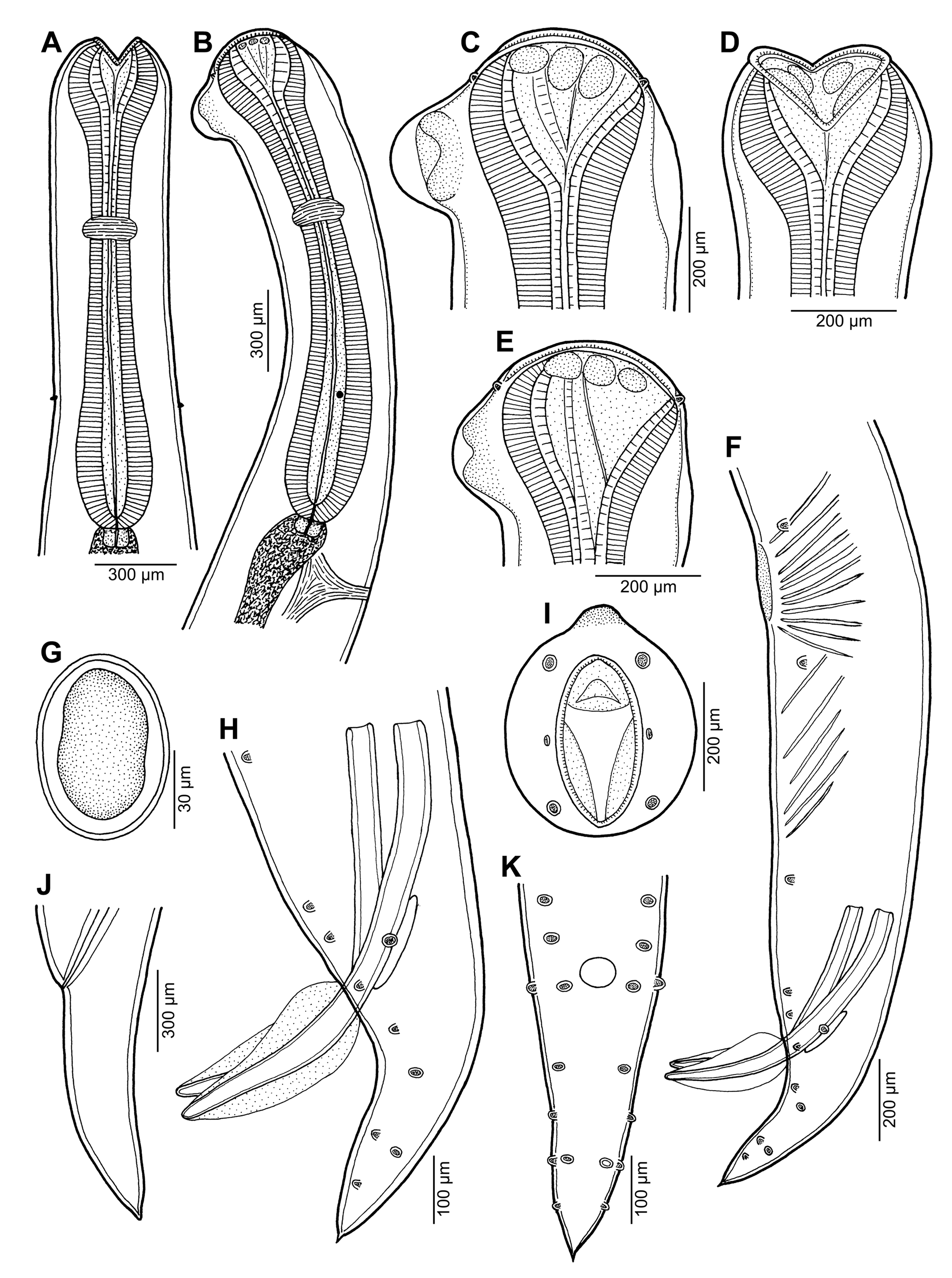 Figure 2 of the paper Cucullanus bulbosus (Lane, 1916) from Carangoides fulvoguttatus. A, B: Anterior end of gravid female, dorsoventral and lateral views, respectively. C, D: Cephalic end of gravid female, lateral and ventral views, respectively. E: Cephalic end of male, lateral view. F: Posterior end of male, lateral view. G: Egg. H: Caudal end of male, lateral view. I: Cephalic end of male, apical view. J: Tail of gravid female, lateral view. K: Caudal end of male, ventral view.